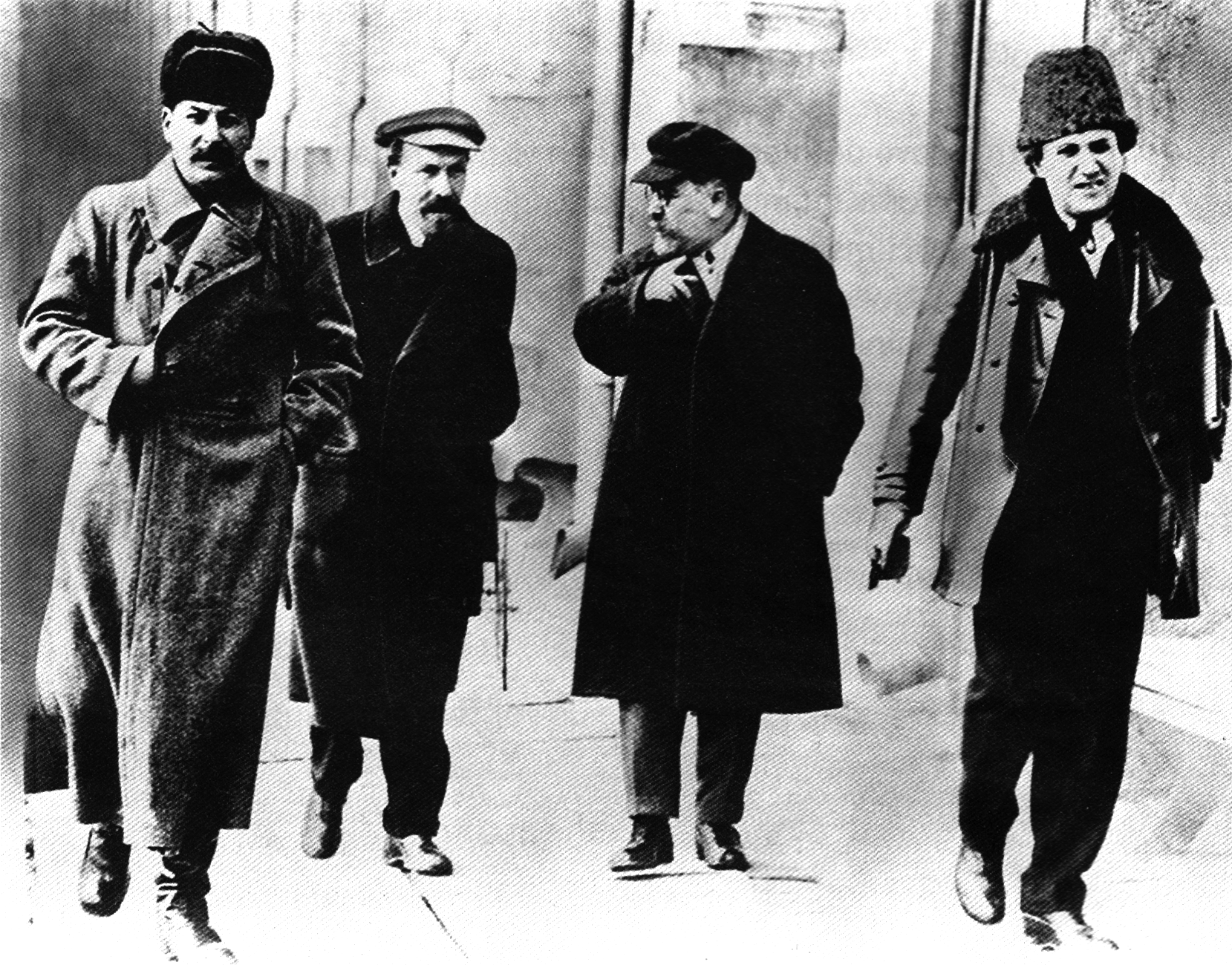 Stalin(left) pictured with Rykov,Kamanev and Zinoviev in 1925. He would have the 3 men in the picture shot during his show trials.